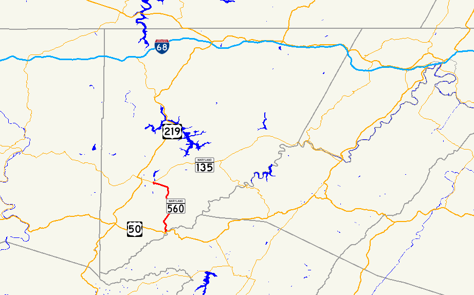 Map of Maryland Route 560